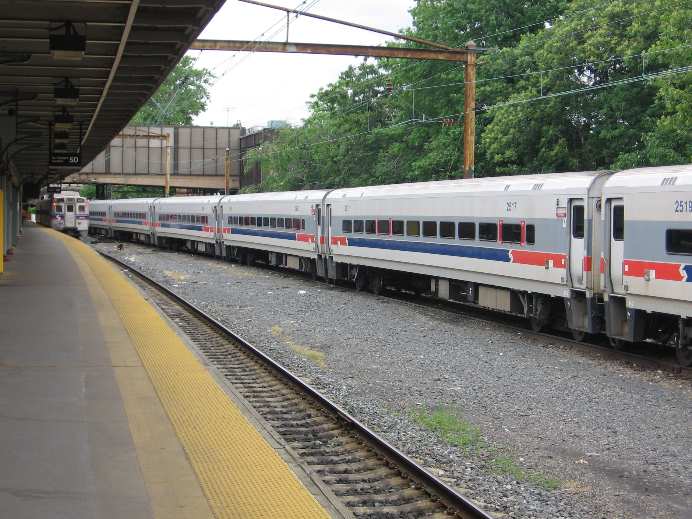 SEPTA Silverliners and SEPTA Push-Pull Train at Trenton Station